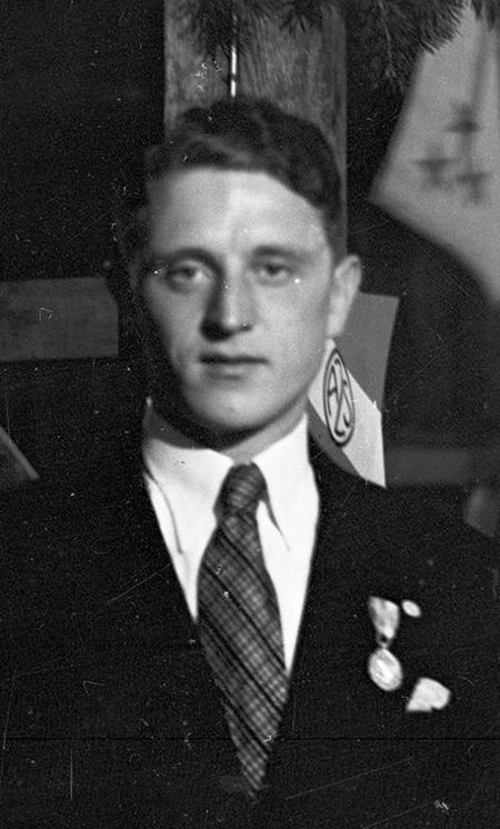 Jerzy Ustupski at the AZS headquarters